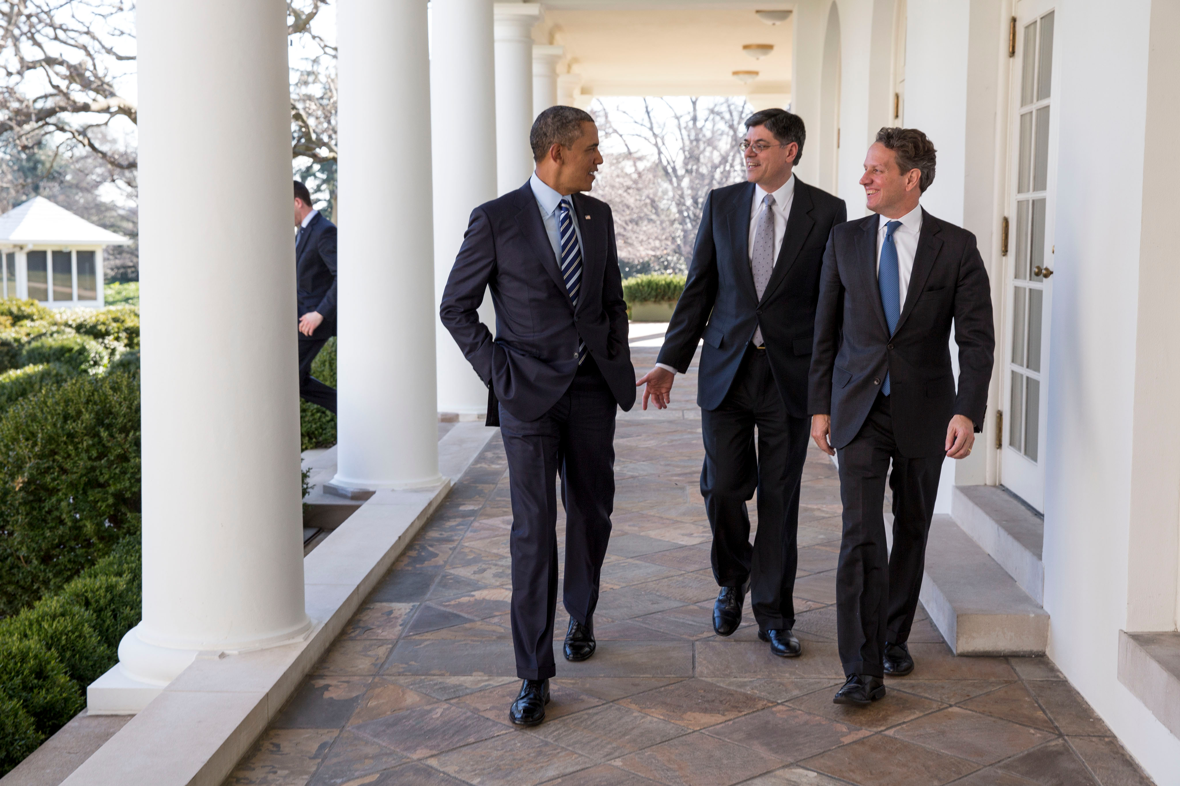 United States President Barack Obama talks with Chief of Staff Jack Lew, centre, and Treasury Secretary Timothy Geithner as they walk on the Colonnade of the White House on January 10, 2013. The President later announced Lew as the his nominee to replace Geithner as Treasury Secretary.